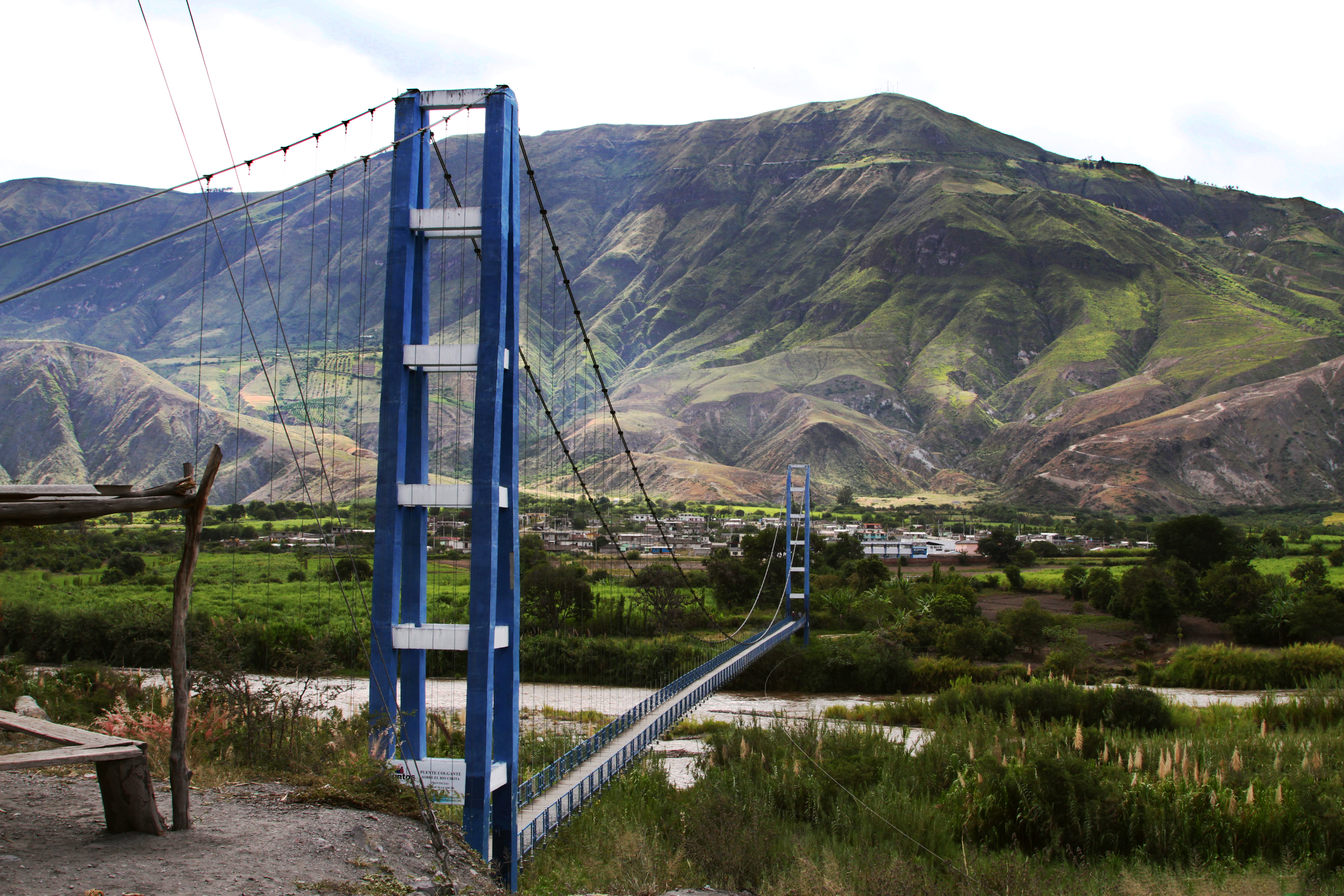 The June 18-24, 2013 mission trip group on the Pusir Grande suspension bridge over the Chota River. Folks that made up the group are from Arkansas, Jacksboro, TX, Weatherford, TX and Fedice.